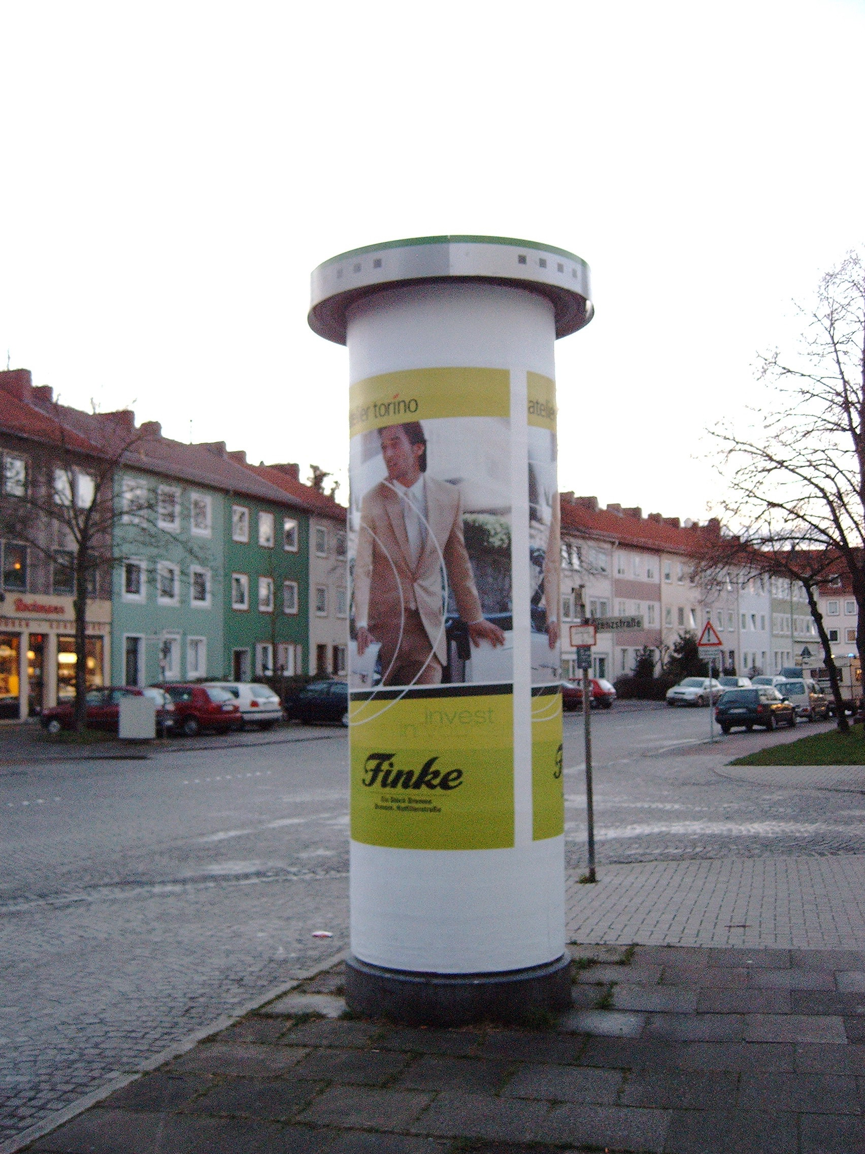 Advertising column in Bremen, Germany.